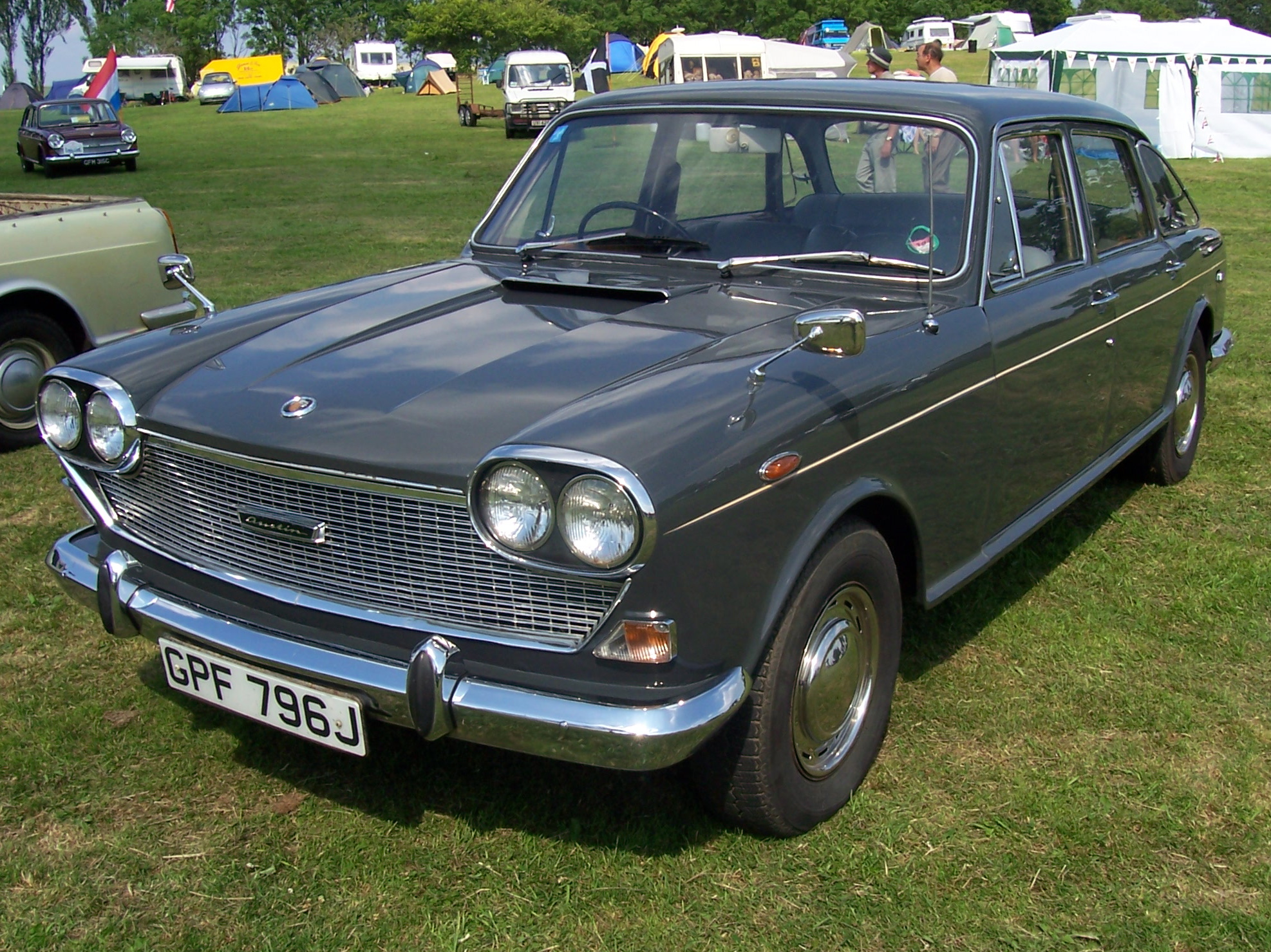 Austin 3-Litre from 1970/71.(DVLA) first registered 7 May 1971, 2912cc